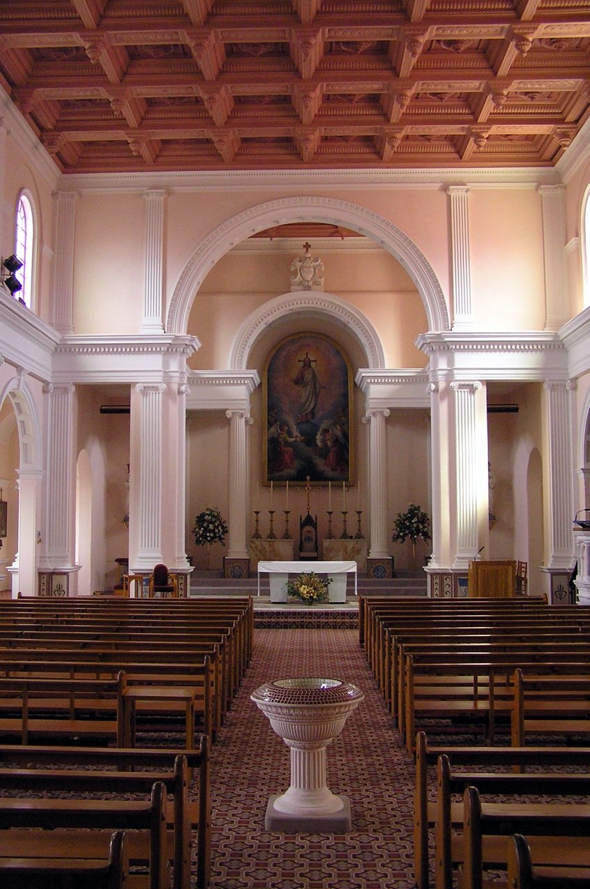 Wellington Catholic Cathedral